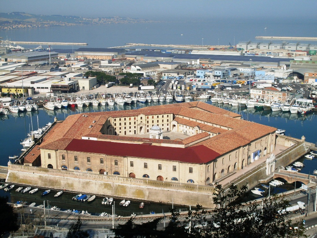 Italy Ancona - Mole Vanvitelliana from Capodimonte